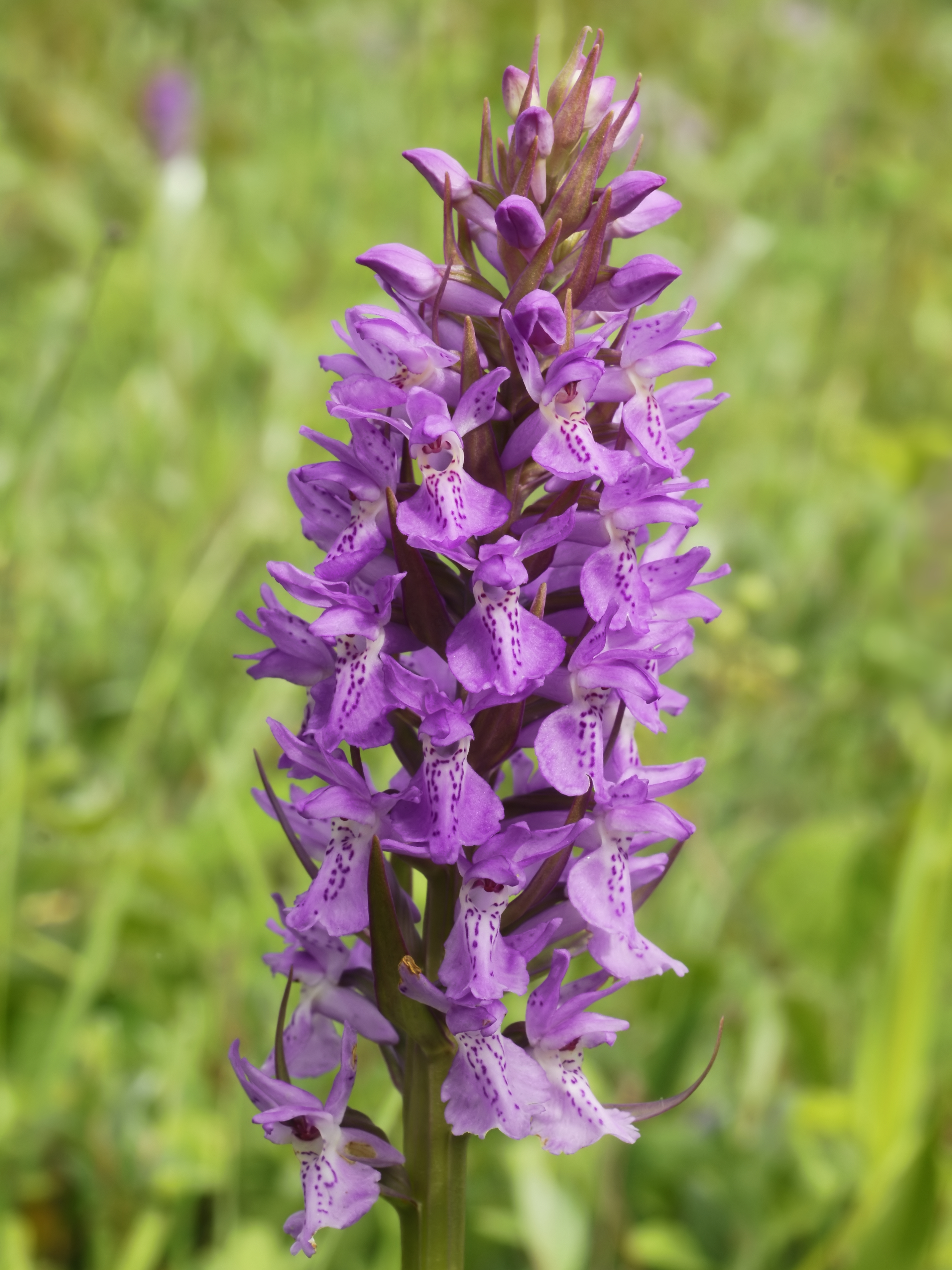 Southern Marsh-orchid. Belgium